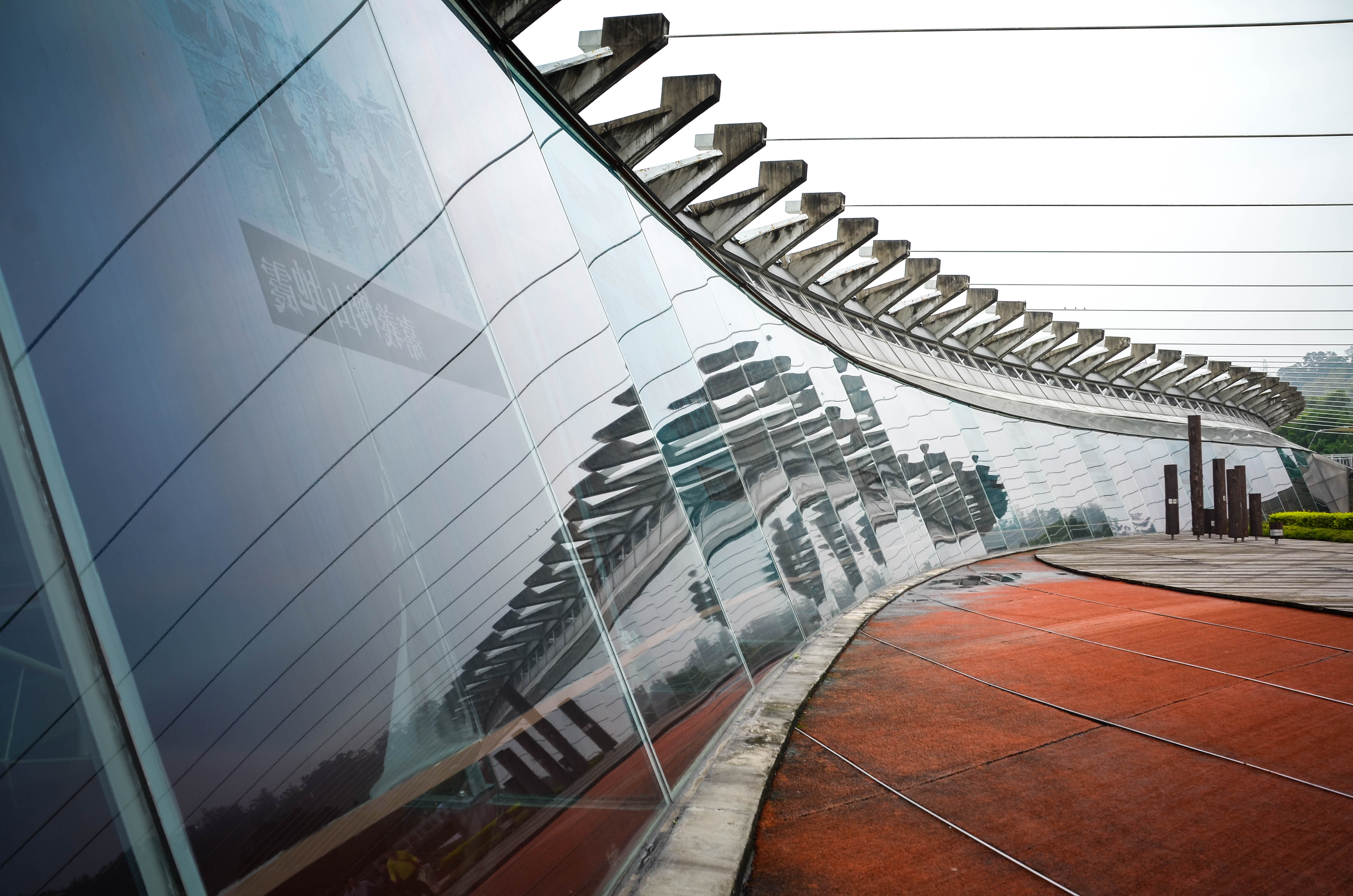 Chelungpu Fault Gallery, 921 Earthquake Museum of Taiwan, Wufeng District, Taichung City, Taiwan.